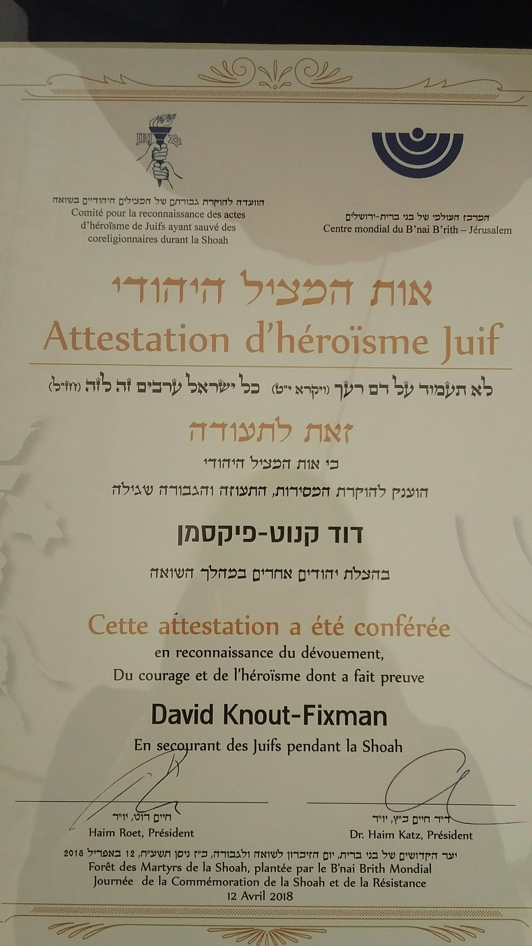 Dovid Knout B'nai B'rith posthumous attestation